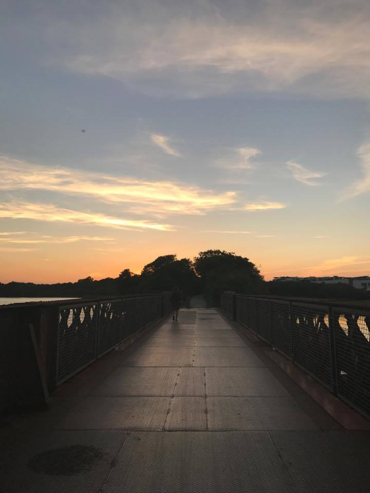 An image of the pedestrian bridge on The Line in Rochestown, Cork City, Ireland